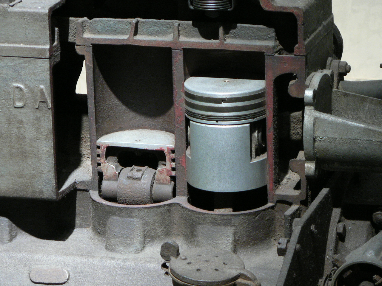 The piston of DAT engine displayed at National Museum of Nature and Science, Tokyo.